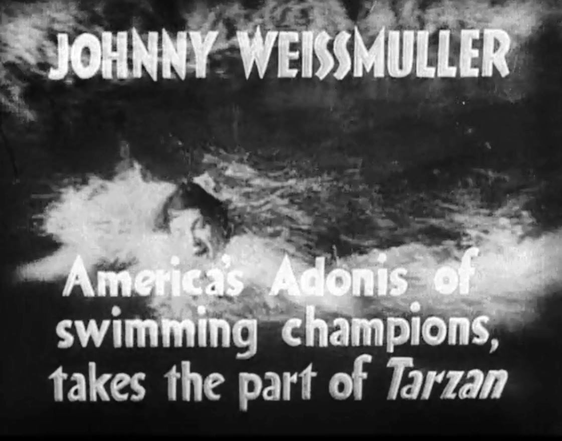 Low resolution screenshot from the public domain trailer for the film Tarzan the Ape Man (1932) with Johnny Weissmuller as Tarzan.